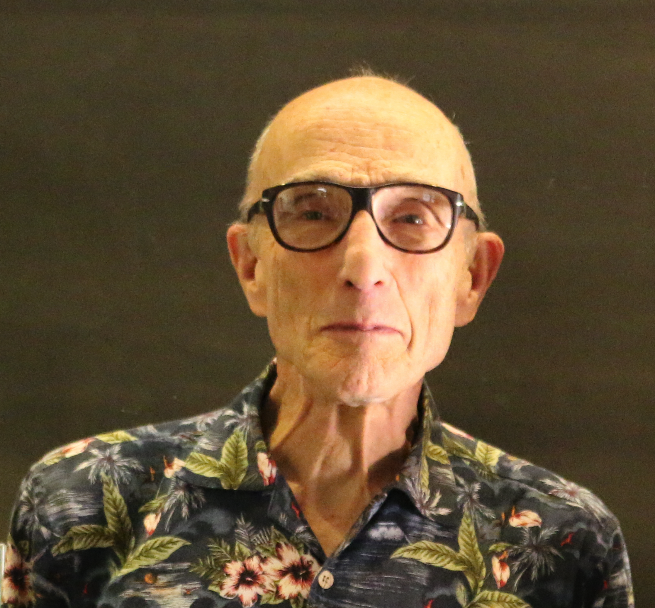 Andrew Ingersoll in an academic event in Pasadena, California 2015